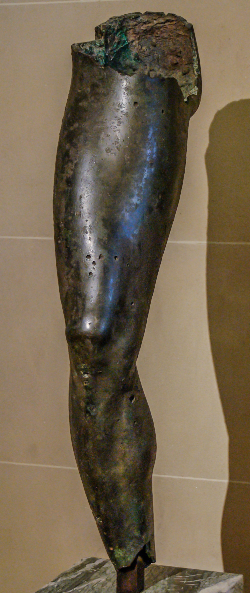 Leg of a statue, probably from the Chatsworth Apollo whose head is exhibited in the British Museum.